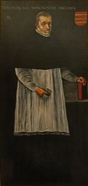 D. Fernão Martins Mascarenhas (1548—1628), bishop of the Algarve, Rector of the University of Coimbra and Grand Inquisitor of Portugal.